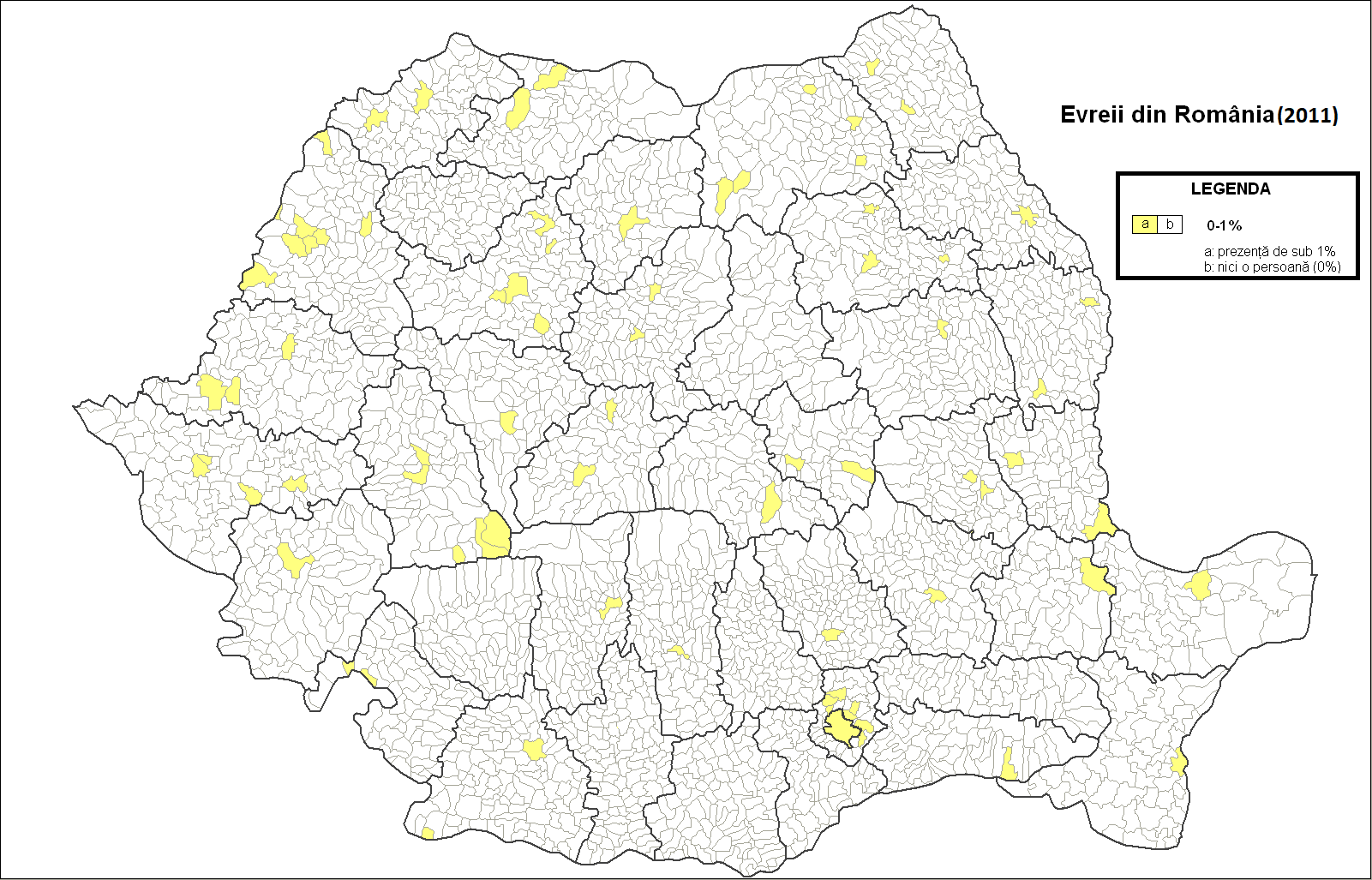 This is the map of the inhabitants of Romania of Jewish origin according to the 2011 population census. It does not include communes with less than 3 inhabitants of this ethnic group, due to their irrelevance. The image is based on maps from the 2002 census.